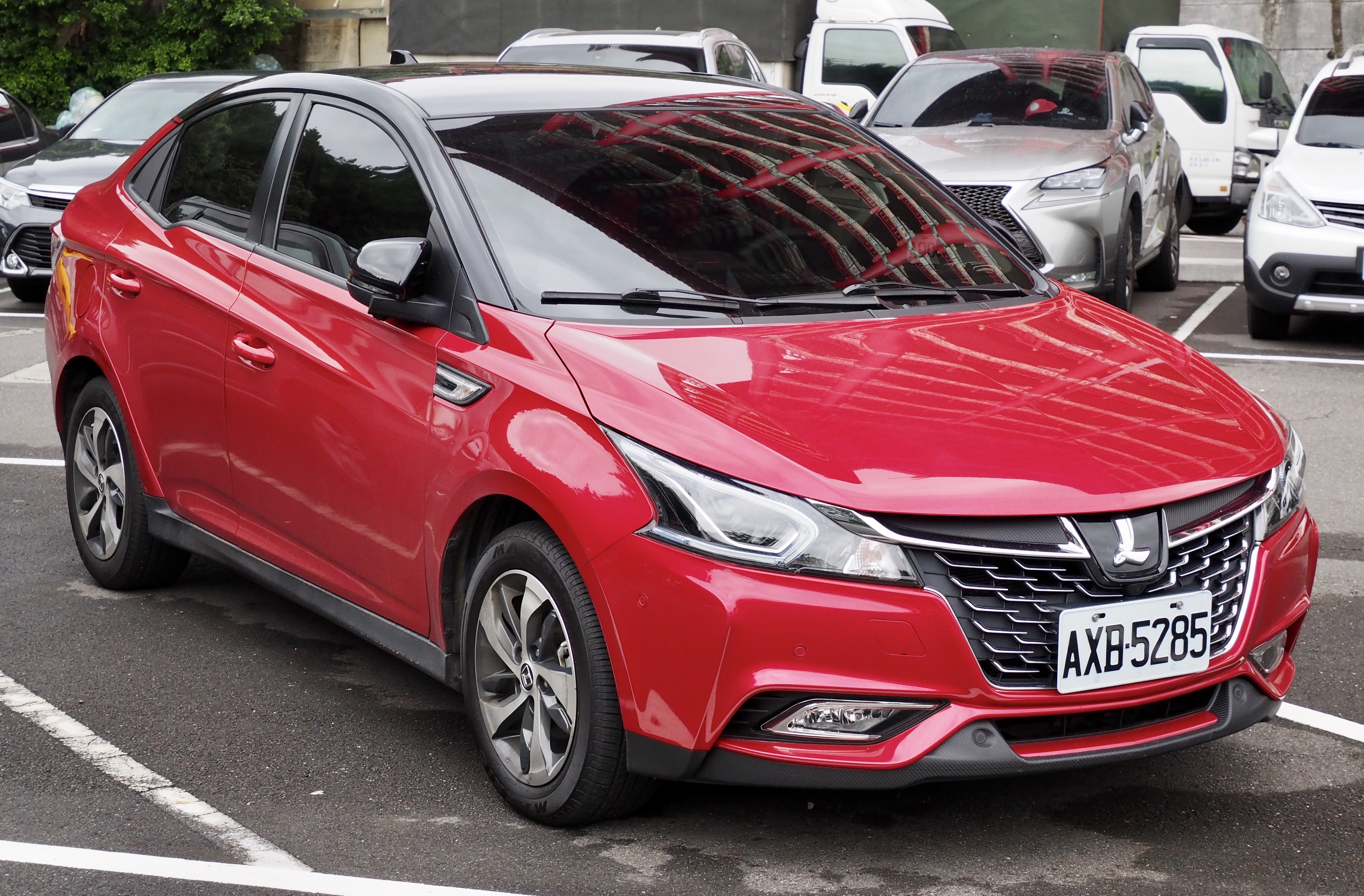 A 2016 Luxgen S3 photographed in Zhongshan District, Taipei, Taiwan. 中文（台灣）: 一輛2016年的納智捷S3，拍攝於台灣台北市中山區。